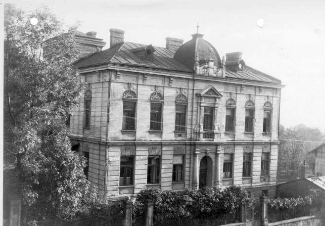 Jewish School in Frýdek (CZ)